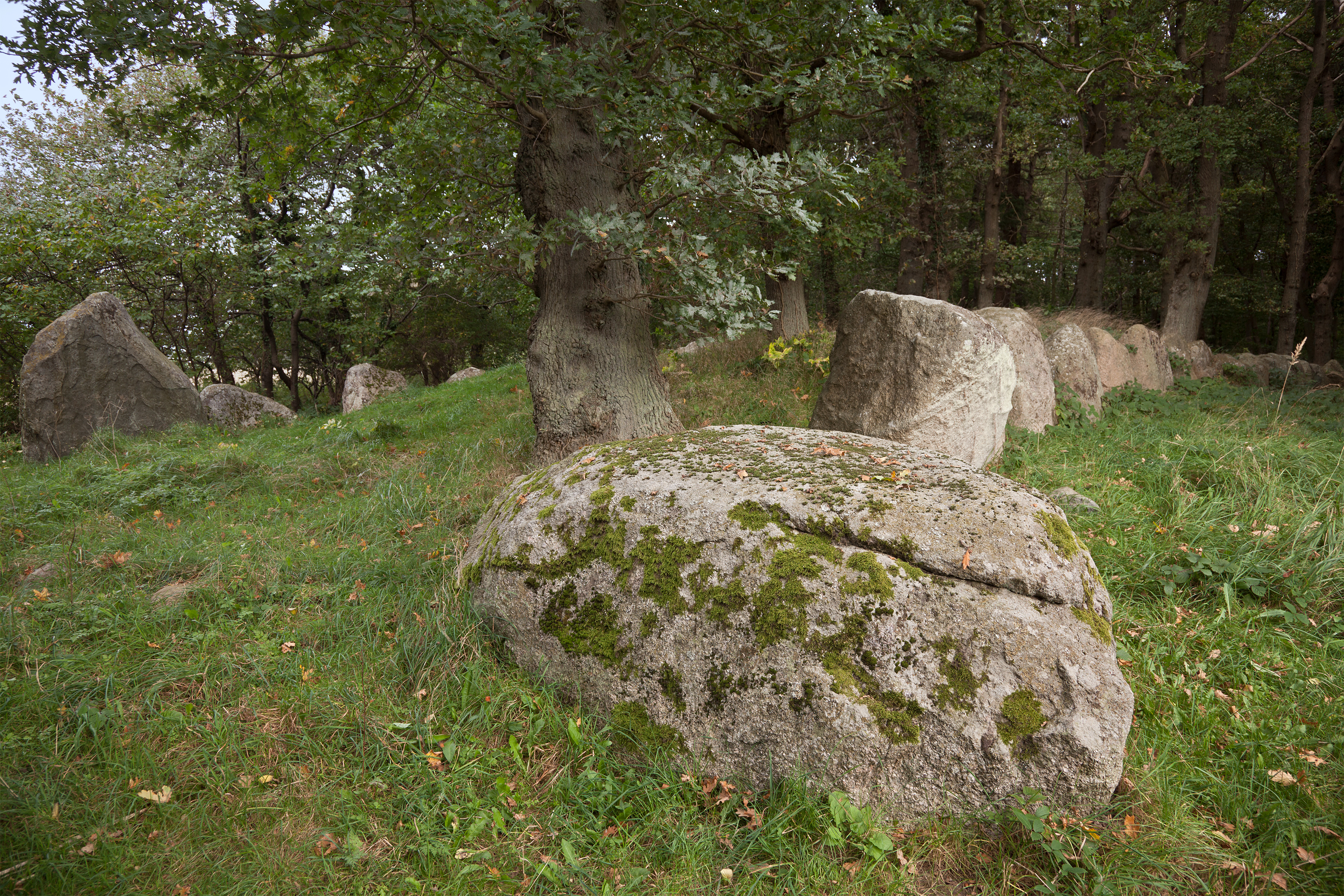 Megalithic tomb of Dwasieden (Dolmen near Sassnitz, Rügen island, Germany)